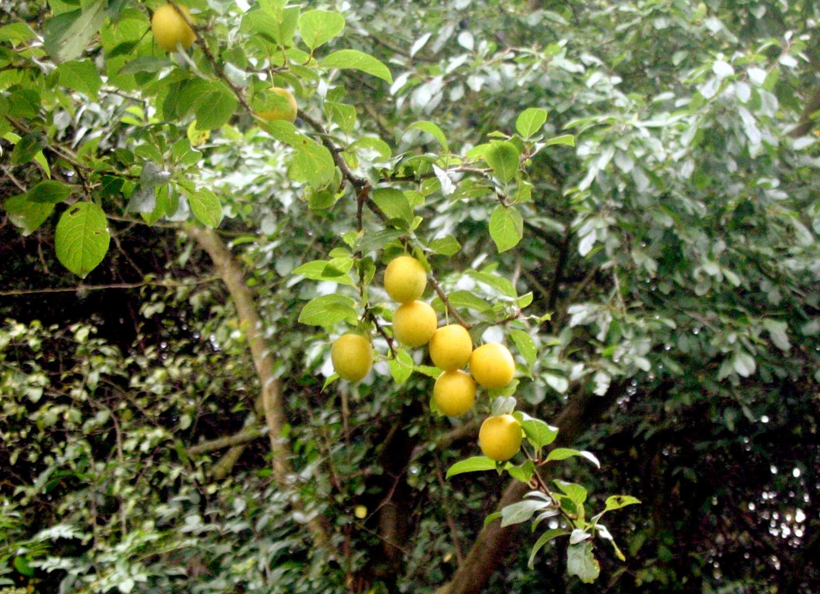 Branch and fruits